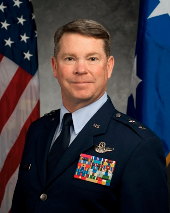 Major General John F. Nichols, 51st Texas Adjutant General (as of February 17, 2011)